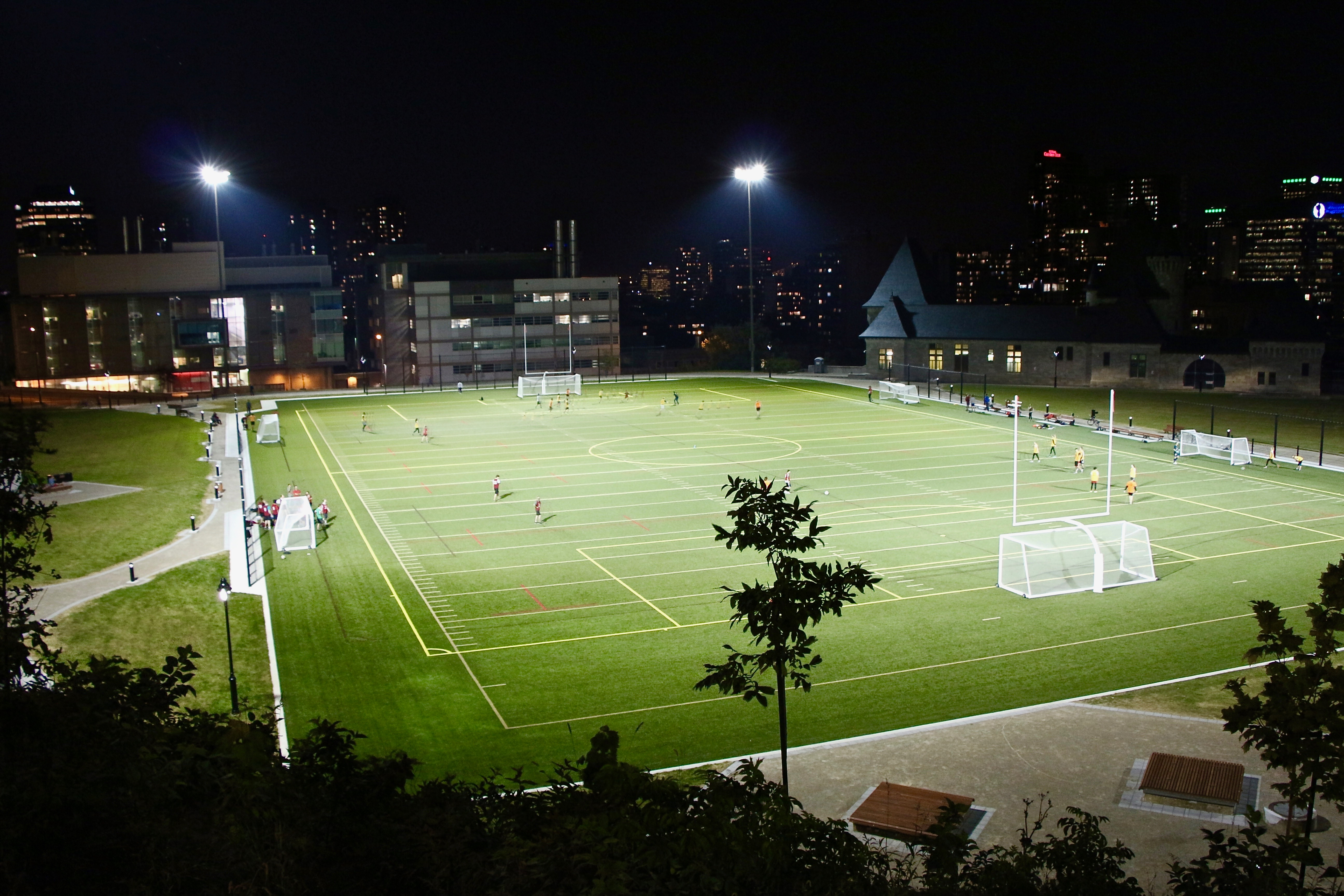 Rutherford Park/McTavish Reservoir, Docteur-Penfield Avenue, Montreal, Quebec, Canada.